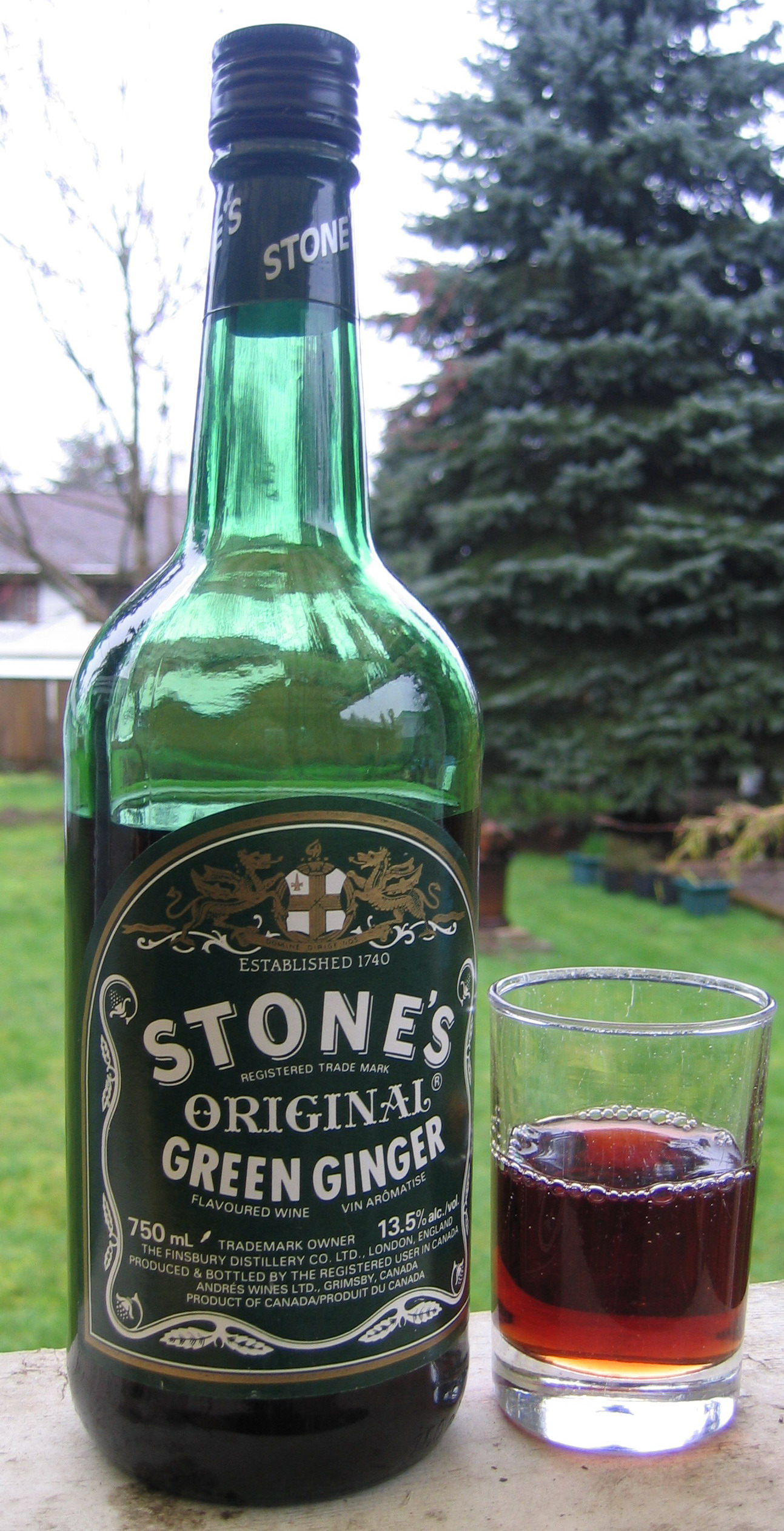 A bottle and a glass of of Stone's Green Ginger wine